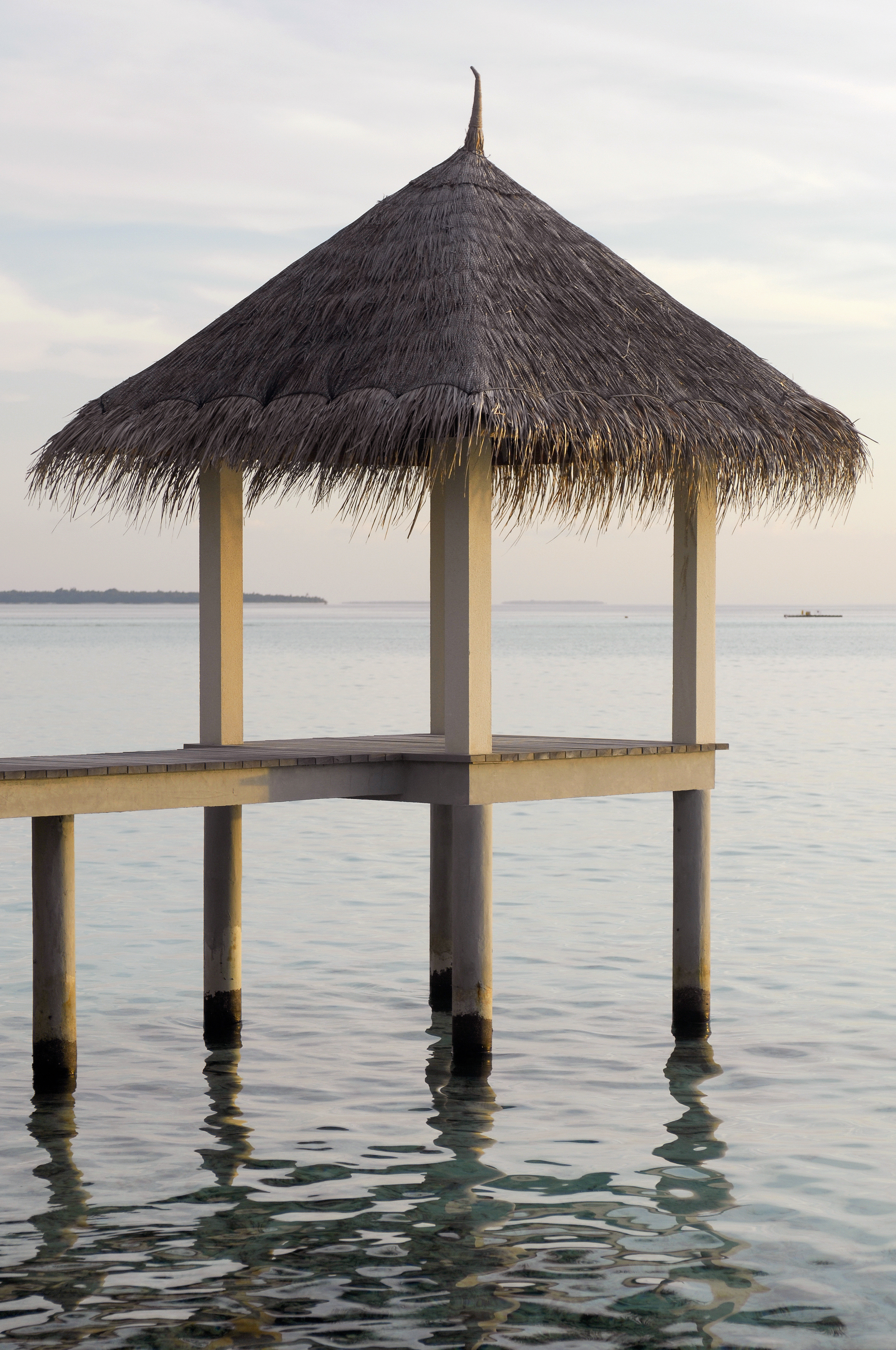 Thatched roof houses. Part of a resort on Landaa Giraavaru, Maldives.